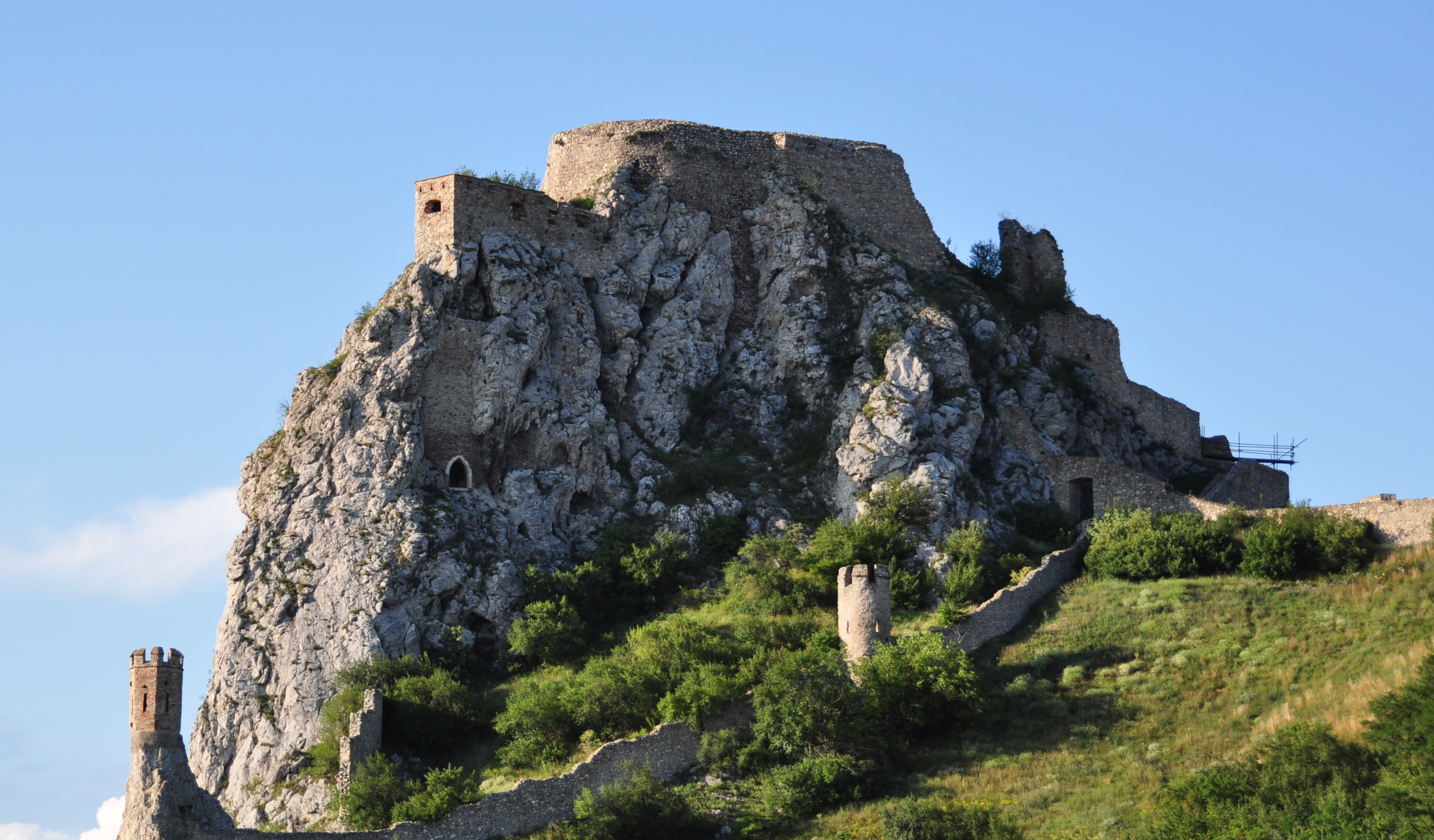 The castle on the Danube shot hanging out of the window of a super-cat on its foils. Lens stabilisation worked well!